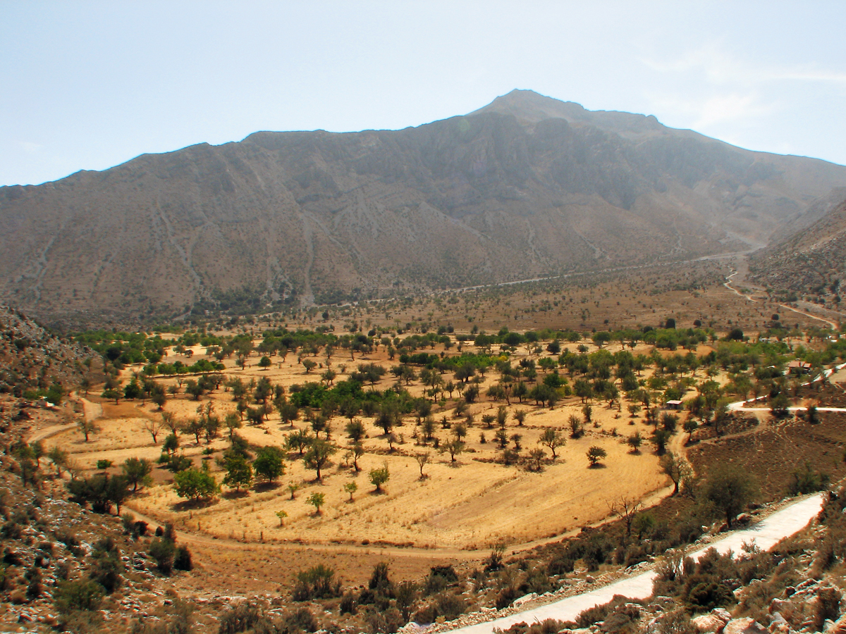 View of the Limnakaro plateau dominated by the Spathi summit. Limnakaro plateau is located south of Lassithi in Crete, Greece.